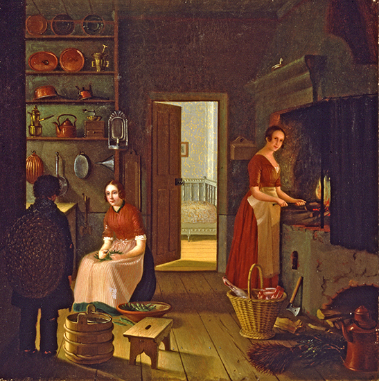 Interiör från Görvälns kök i Görvälns slott, Järfälla socken, på 1830-talet. Oljemålning av Johan Gustaf Köhler (1803-1881). Stockholms stadsmuseum - historiska bilder.